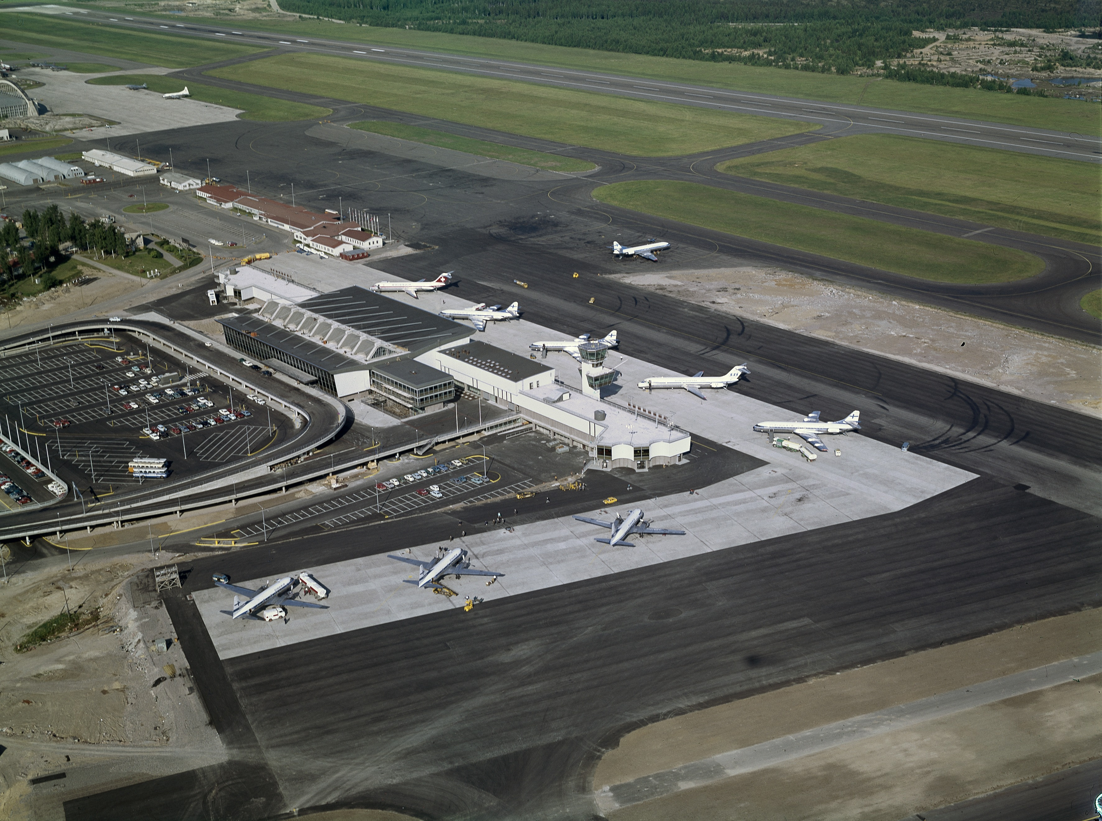 Aerial photograph of the newly-built passenger terminal (current terminal 2) at Helsinki-Vantaa Airport in 1969, seen from east. Runway 04/22 (now 04R/22L) on the background.